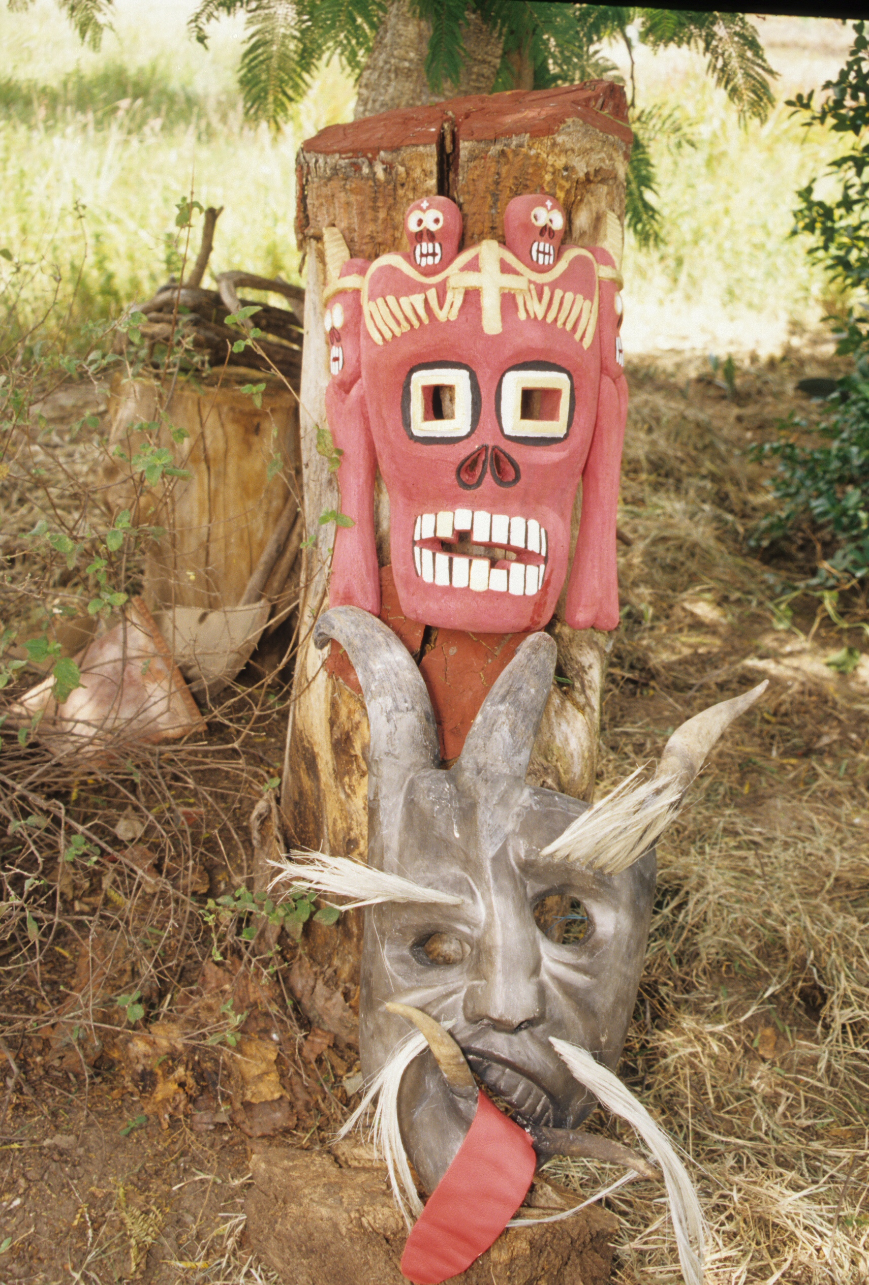 Red skeleton and devil mask by Isidoro Cruz Hernandez of San Martin, Oaxaca